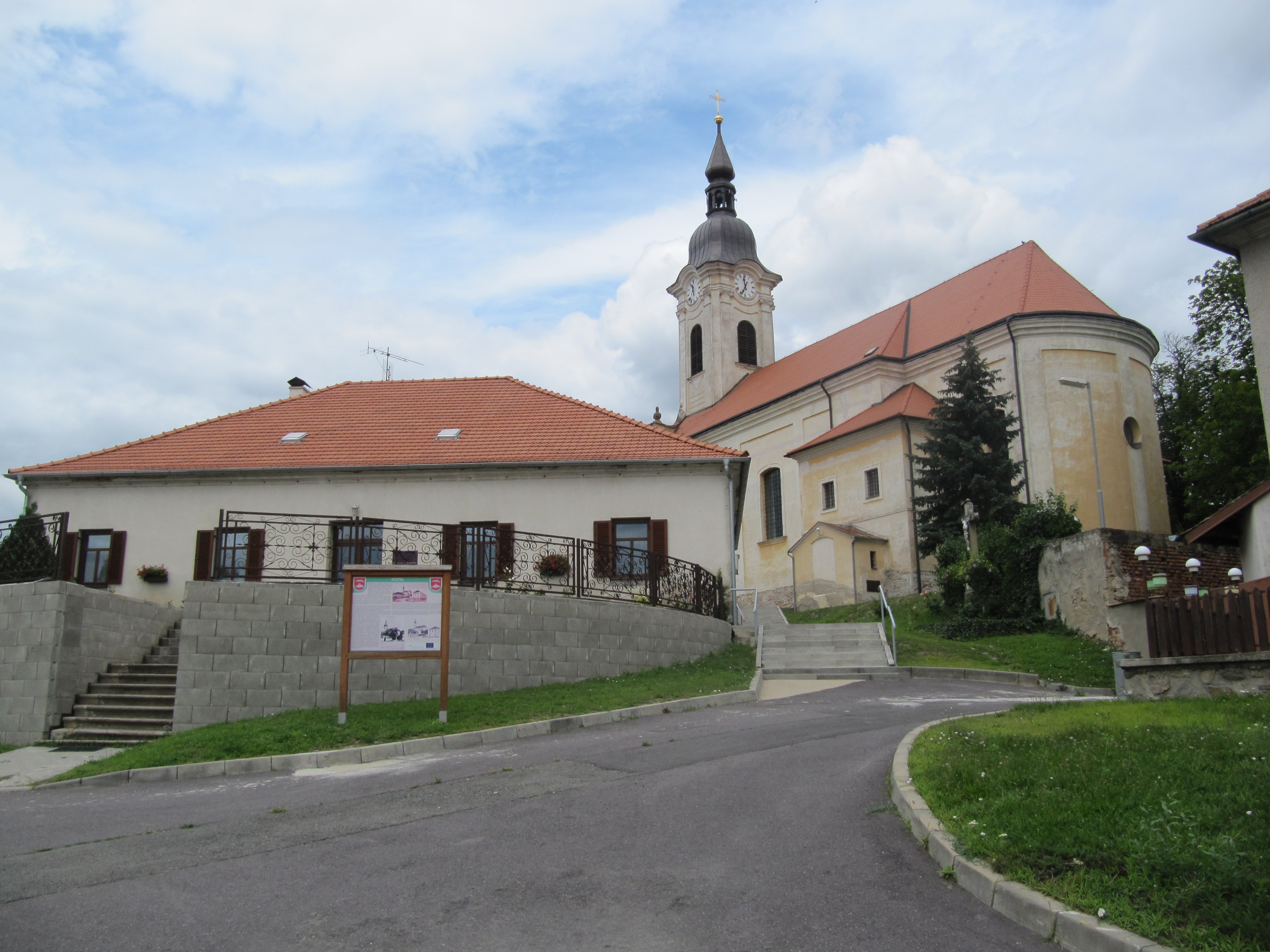 Hrušovany nad Jevišovkou in Znojmo District, Czech Republic. Presbytery and Church of Saint Stephen.